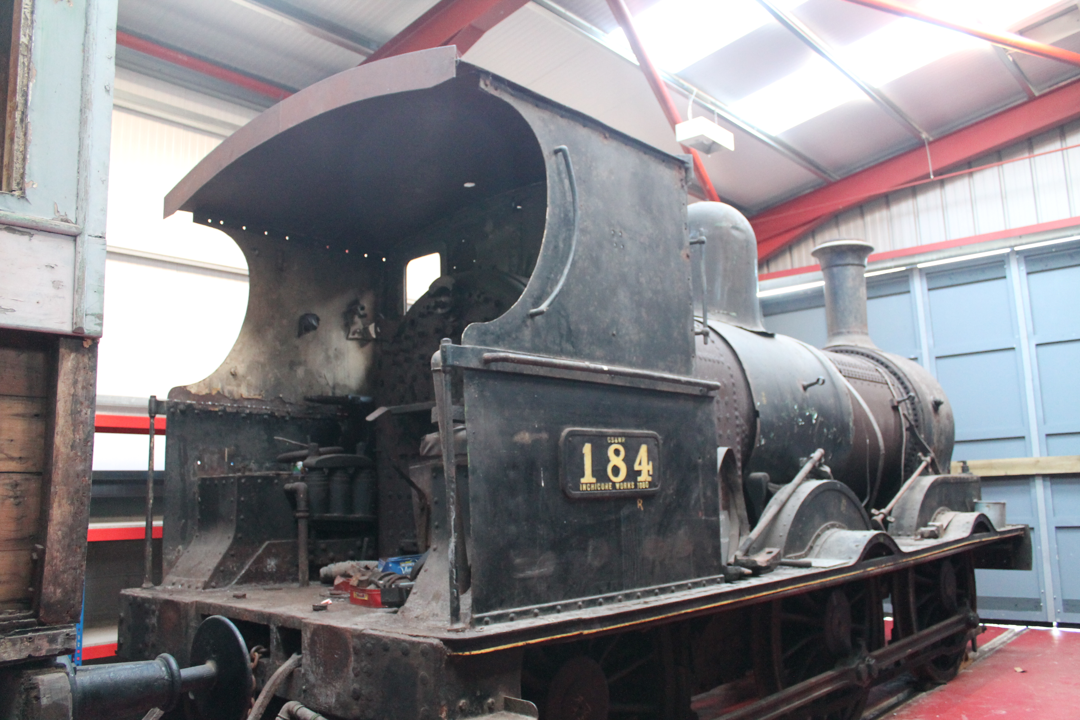 Ex-GSWR No. 184 in store at Whitehead.